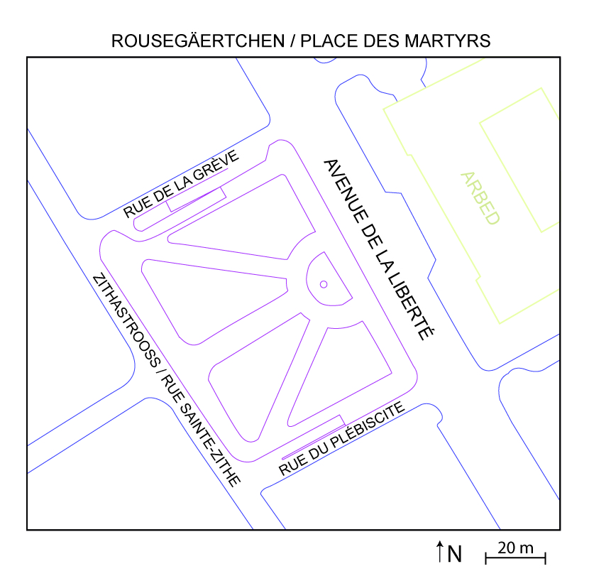 Map of the Place des martyrs (Rousegäertchen) in the city of Luxembourg (2013).